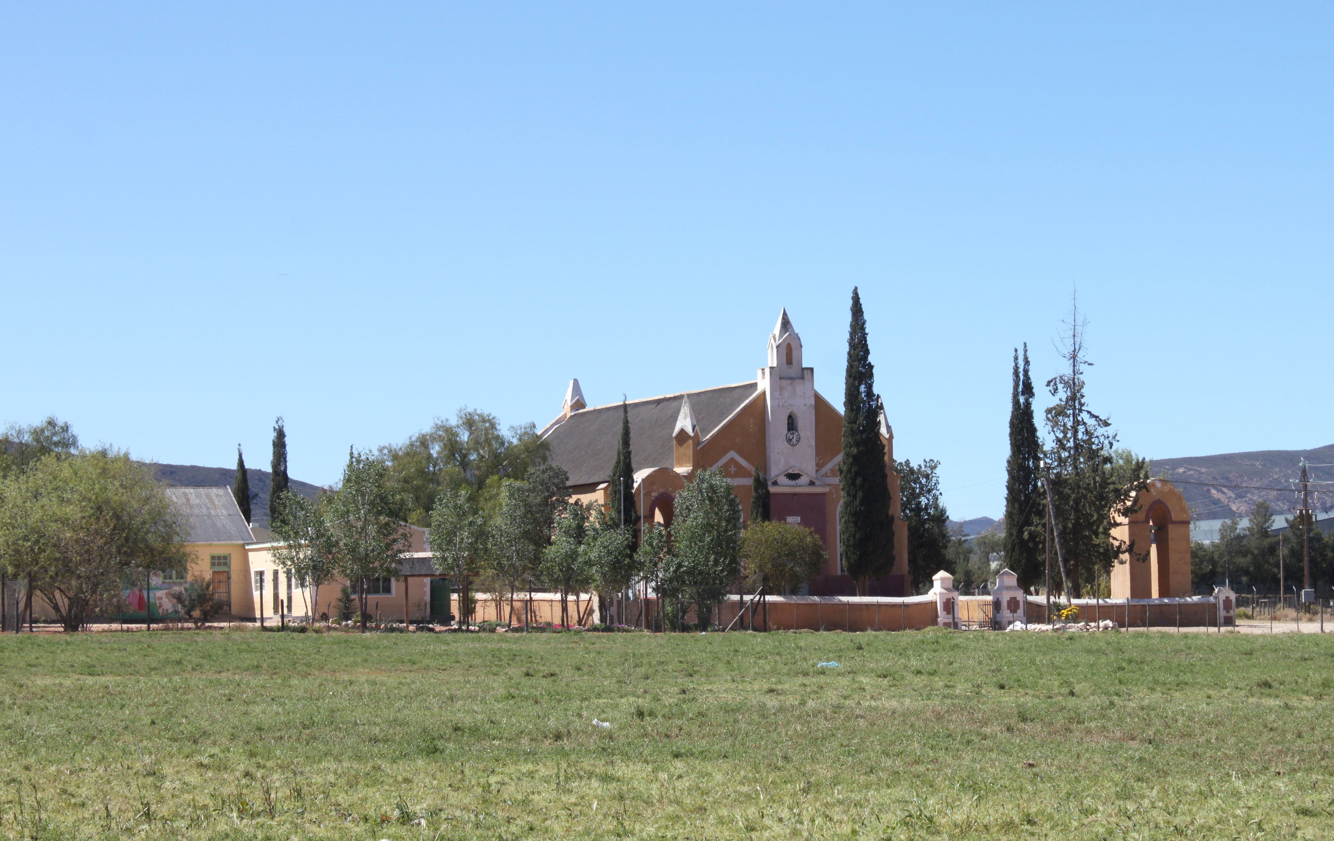 Amalienstein Mission Complex, completed in Amalienstein in 1853. The heritage site includes the church, the two bell-towers, the ring-wall and the adjoining school. This media shows a South African Protected Site with SAHRA file reference 9/2/056/0009.